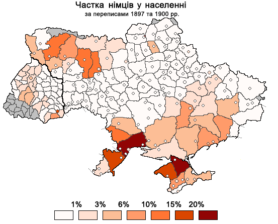 Germans in Ukraine, 1897 and 1900 census